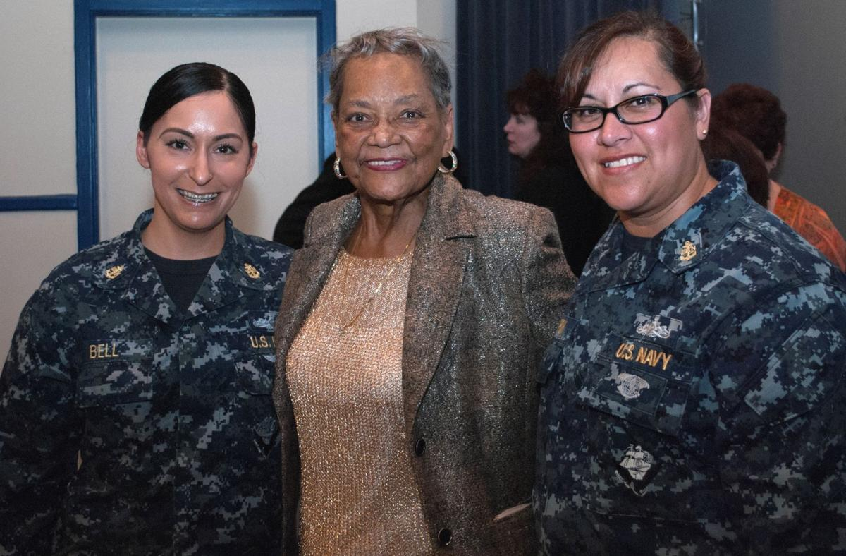 "DAHLGREN, Va. (April 4, 2017) - Navy Chief Petty Officers are pictured with retired Navy engineer Raye Montague after her keynote speech at a Women's History Month Observance held at Naval Support Activity South Potomac, comprising bases at Indian Head, Md., and Dahlgren....U.S. Navy Photo by Bill Tremper"